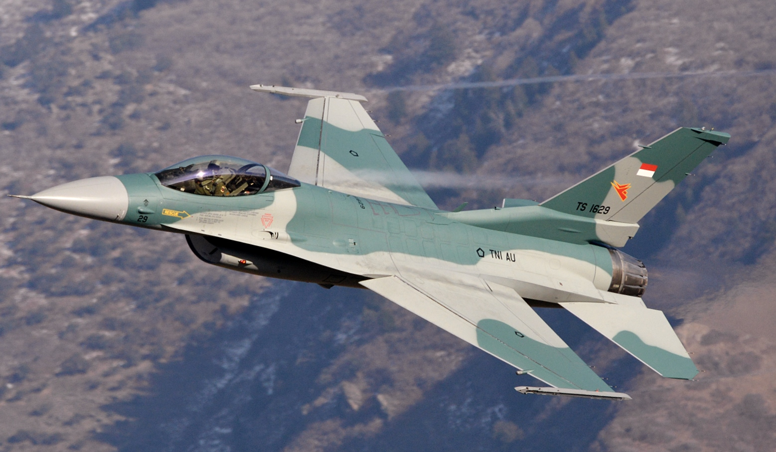 Lt. Col. Beau “Strap” Wilkins, 514th Flight Test Squadron F-16 test pilot, makes a high speed pass in an Indonesian F-16C Fighting Falcon at Hill Air Force Base, Utah, on Nov. 21 during a functional check flight on the aircraft. This is the 24th F-16 to receive a complete refurbishment at the Ogden Air Logistics Complex as part of a foreign military sales contract with the Indonesian government. (U.S. Air Force photo by Alex R. Lloyd)